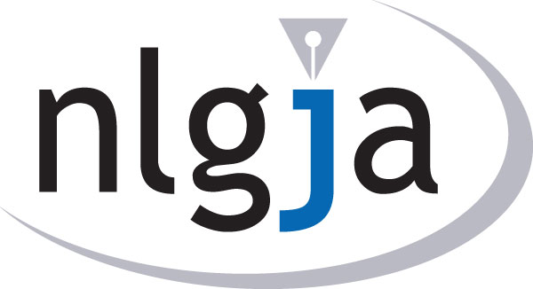 Logo for the National Lesbian & Gay Journalists Association